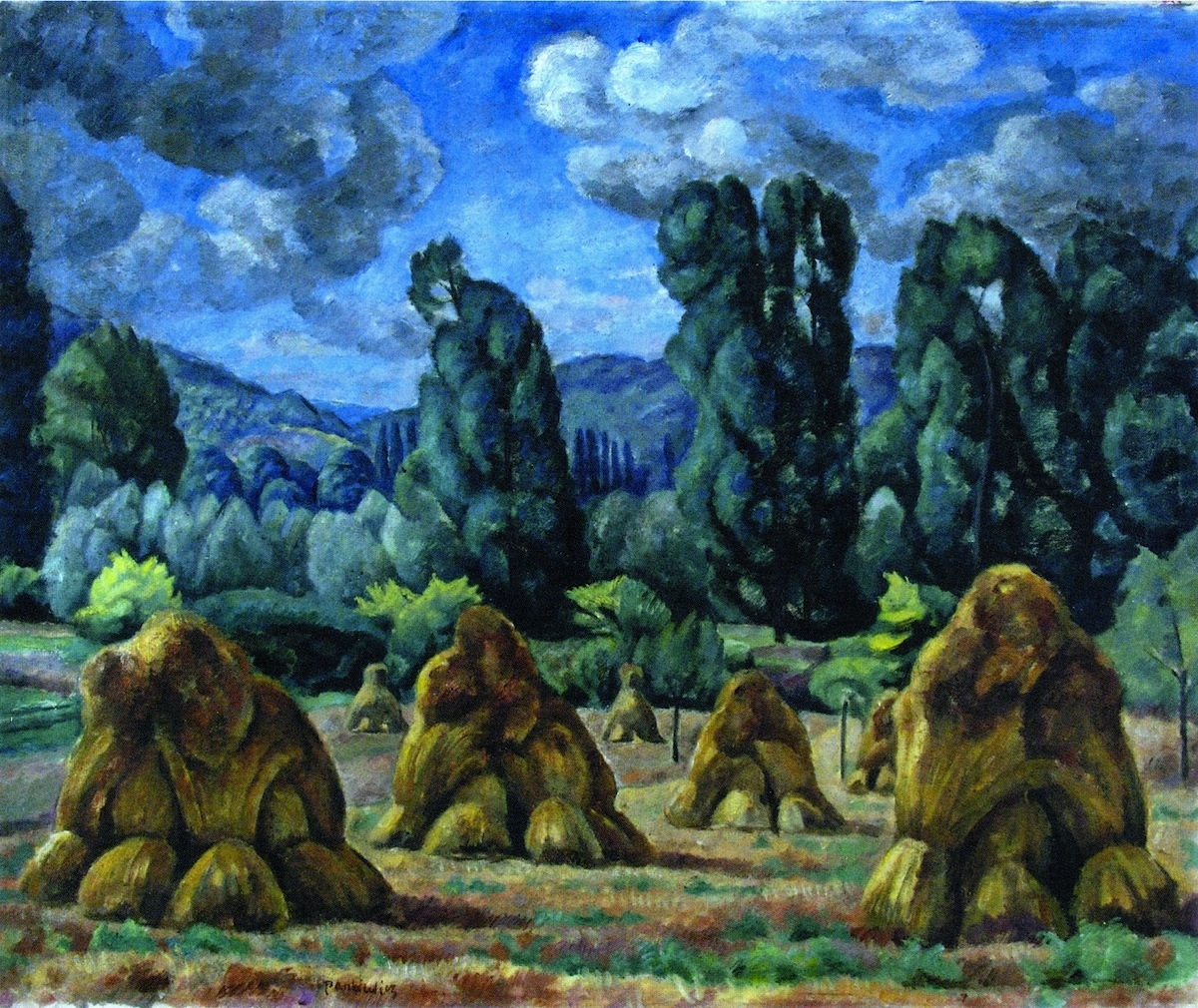 Haustacks - Normandie landscape. 60.5 cm (23.82 in.), Width: 73.5 cm (28.94 in.). Painting - oil on canvas